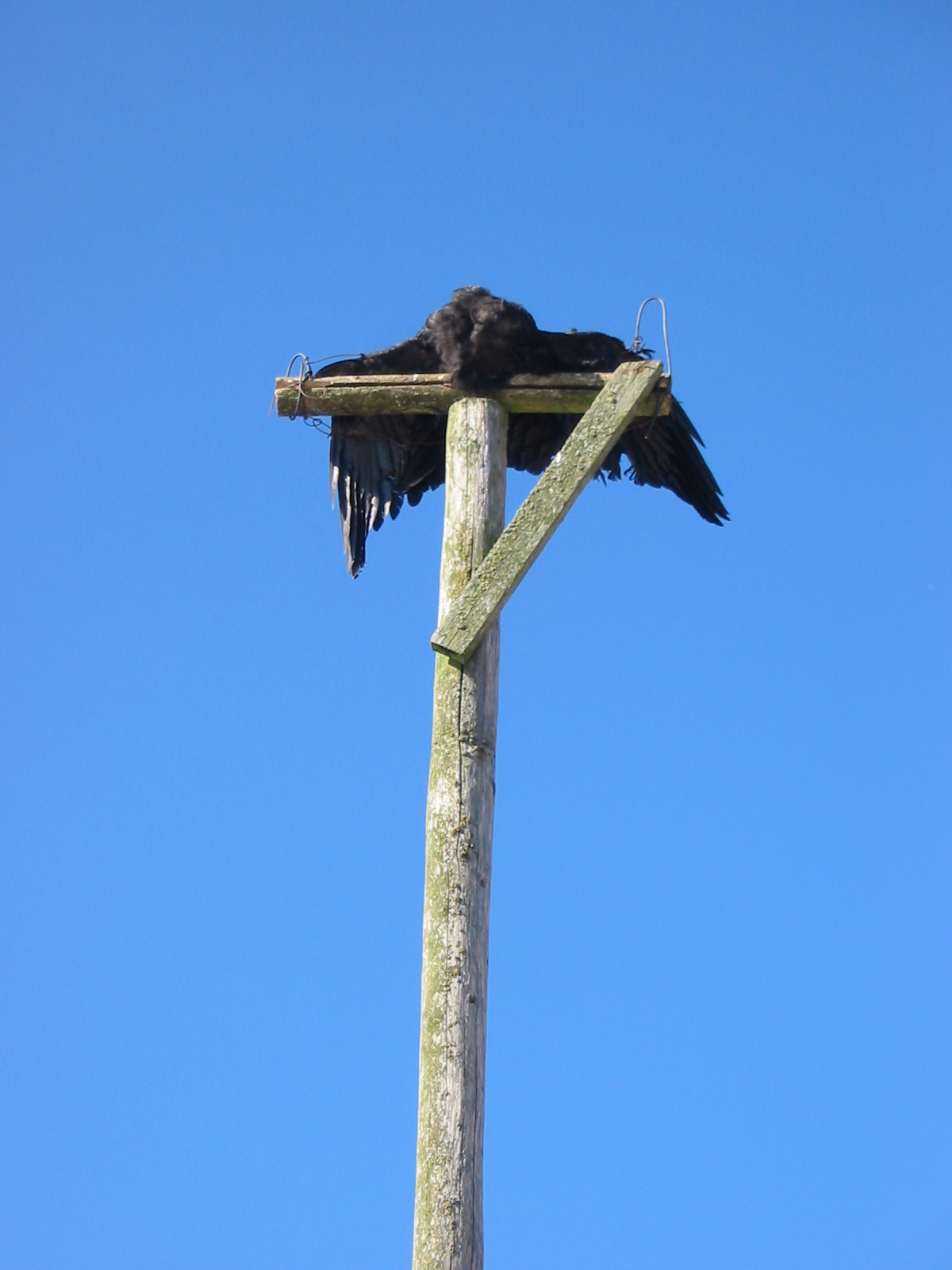 Dead crow as a scarecrow in the vineyards